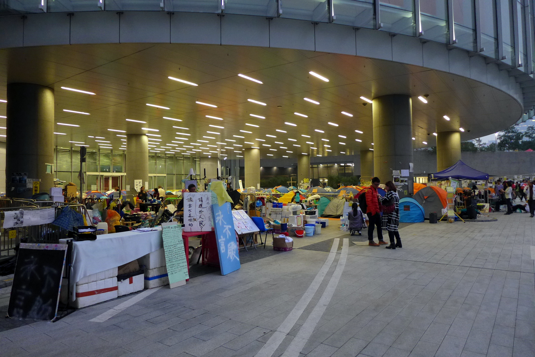 Legistative Council Occcupy Area View_